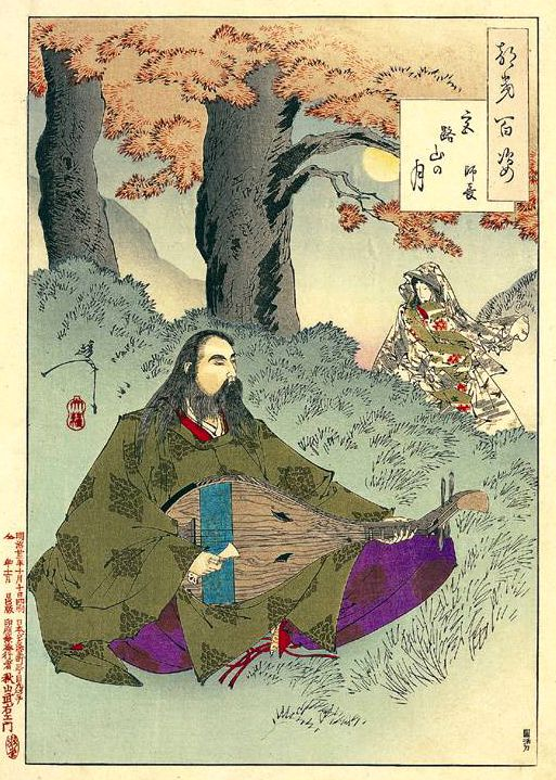 Mount Miyaji moon (Miyajiyama no tsuki)